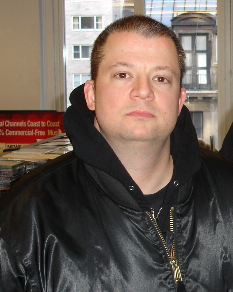 Jim Norton in XM Studios in 2005